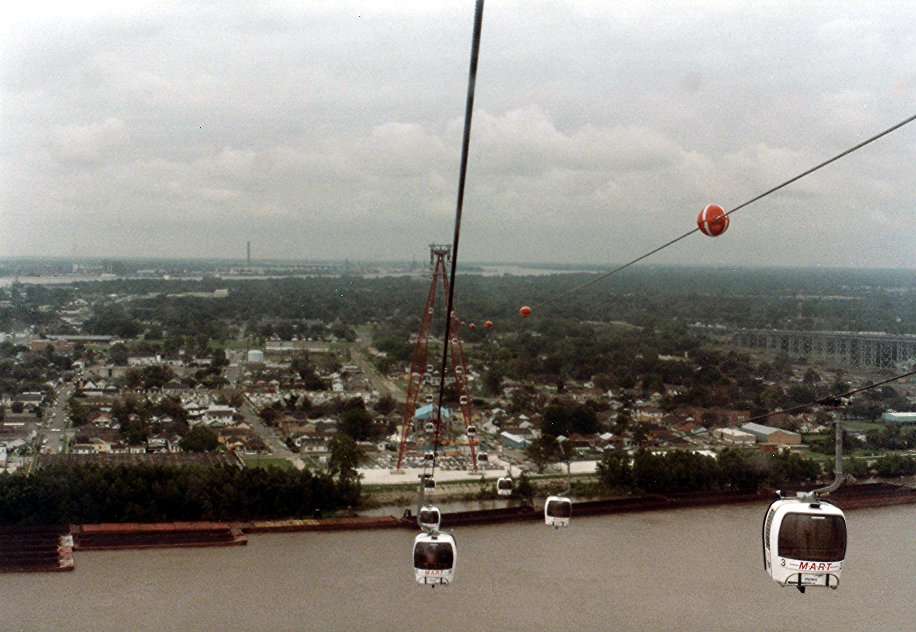 "NOLA Gondola". The gondola ride to the west bank of the Mississippi River set up for the "Louisiana World Exposition", the 1984 World's Fair in New Orleans. Officially known as the "Mississippi Aerial River Transit" or "MART". This is a view looking towards the Algiers West Bank side of the Gondola Ride, with the "Blaine Kern's Mardi Gras World" attraction. (This is the opposite bank from the World's Fair proper, not visible.)